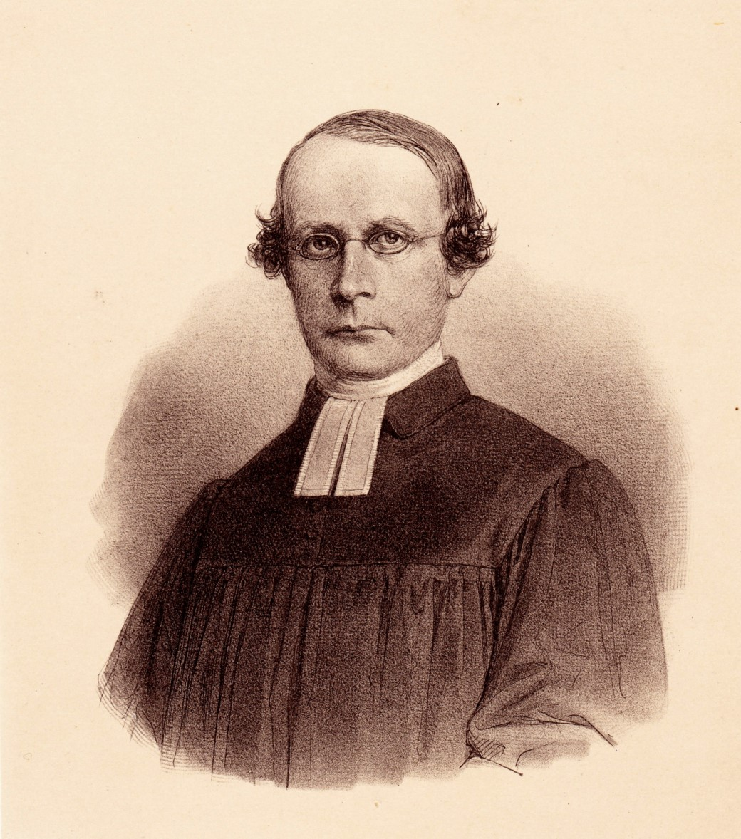 Theodor Harms